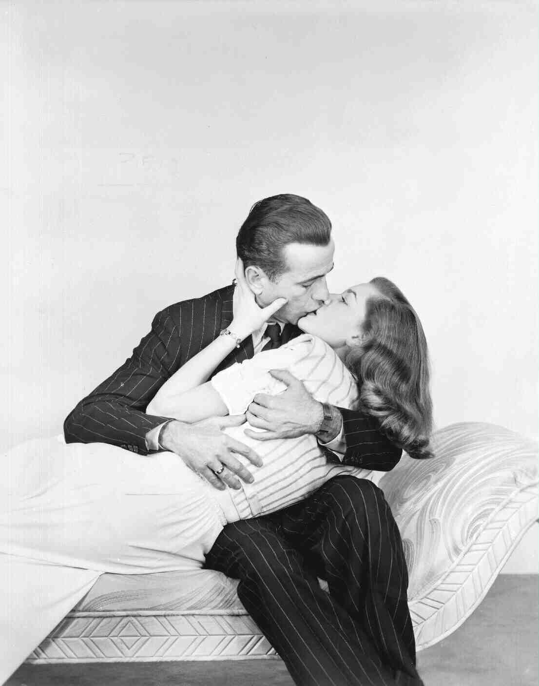 Publicity still for The Big Sleep